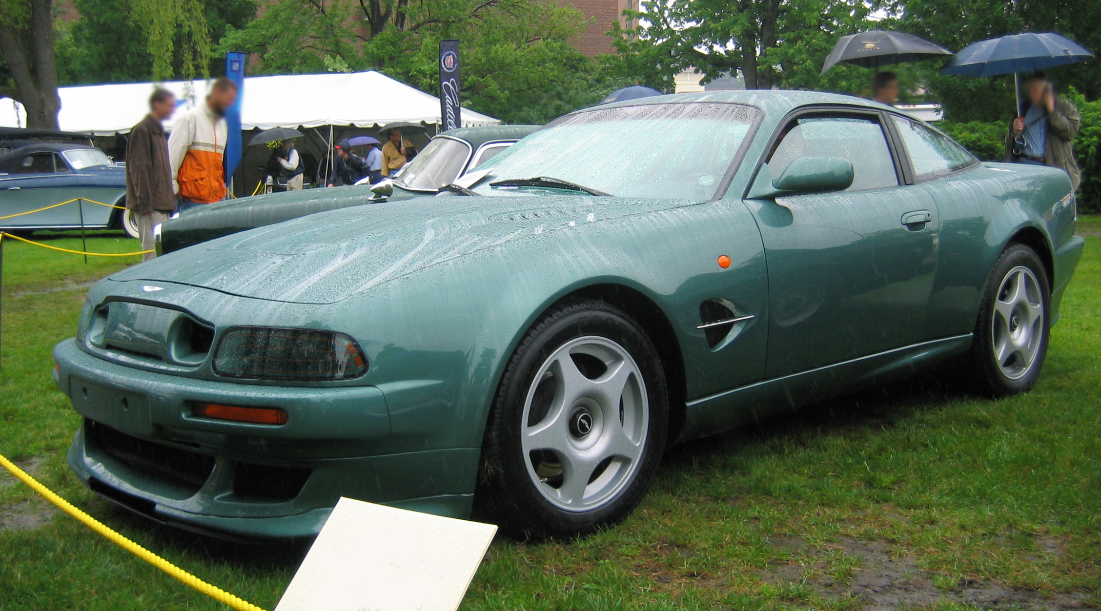 Aston Martin Vantage LeMans at 2004 Greenwich Concours d'Élegance